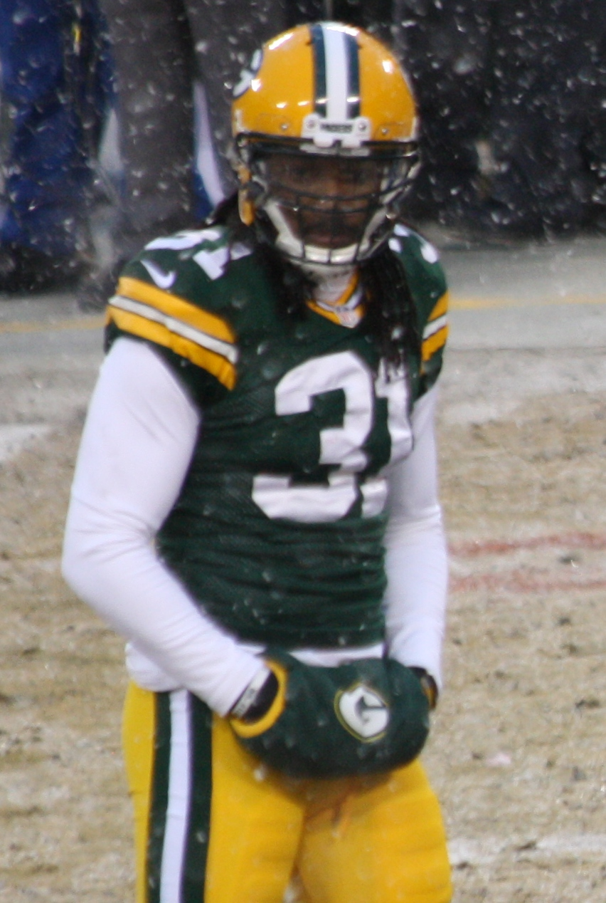 Green Bay Packers player Davon House lined up on defense against the Pittsburgh Steelers.